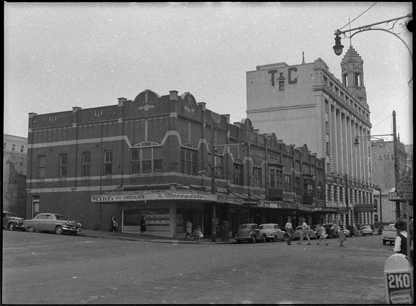 Hospital block on corner of Hunter and Pacific Streets